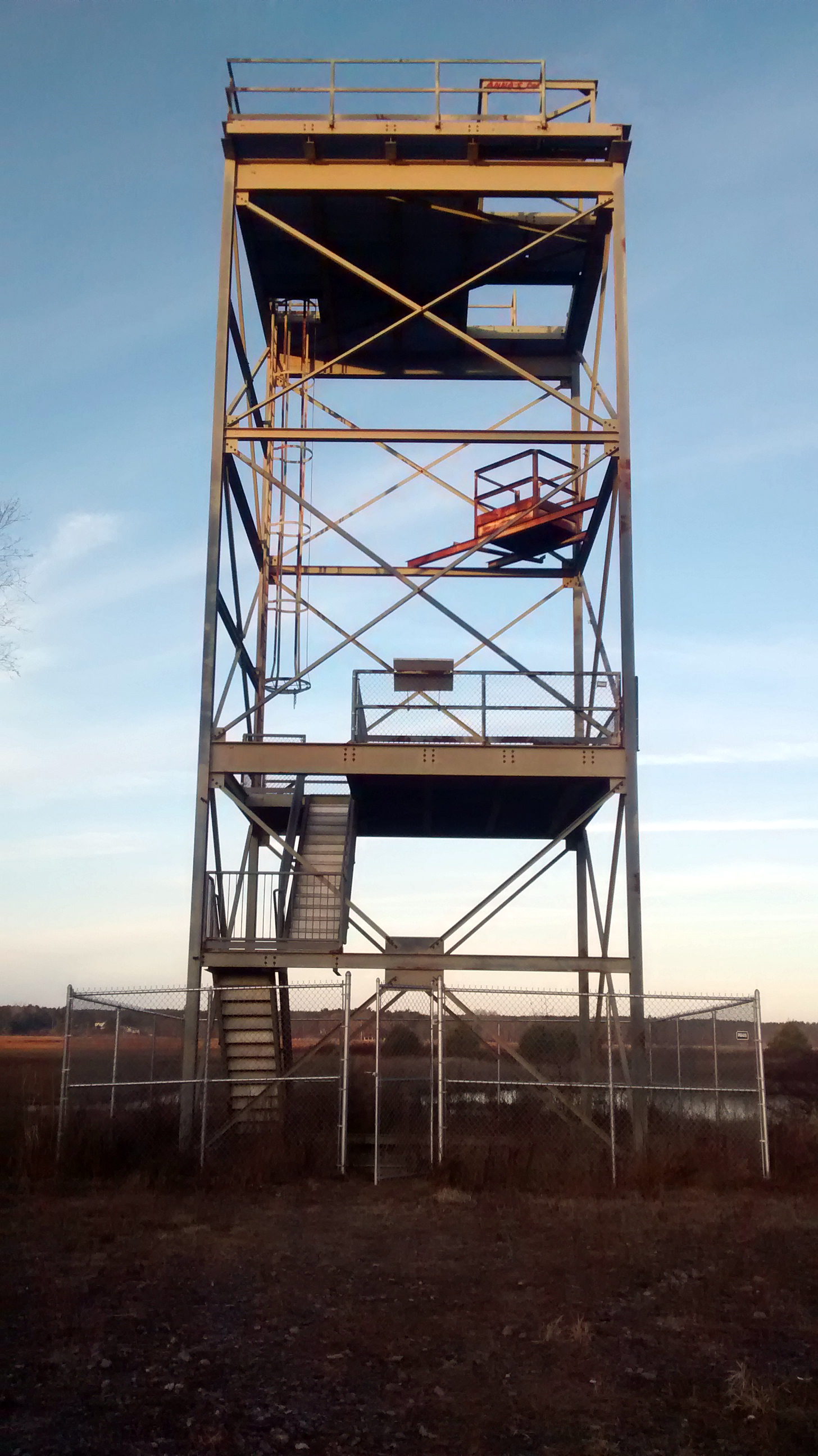 An observation tower is a short walk from the IF&W-maintained parking area off Manson Libby Road. The tower, a former cell tower on what was until recently land owned by the Gervais family, provides a view of the Dunstan River weaving through marshland.